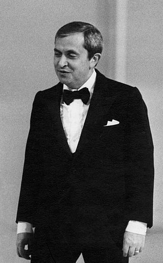 Italian actor Paolo Panelli presenting the TV show Canzonissima. Italy, 1959.